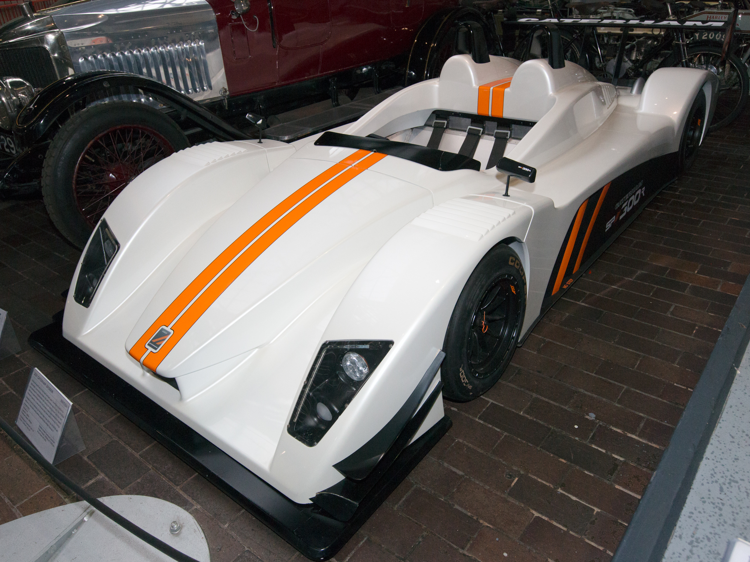 2011 Caterham SP300.R